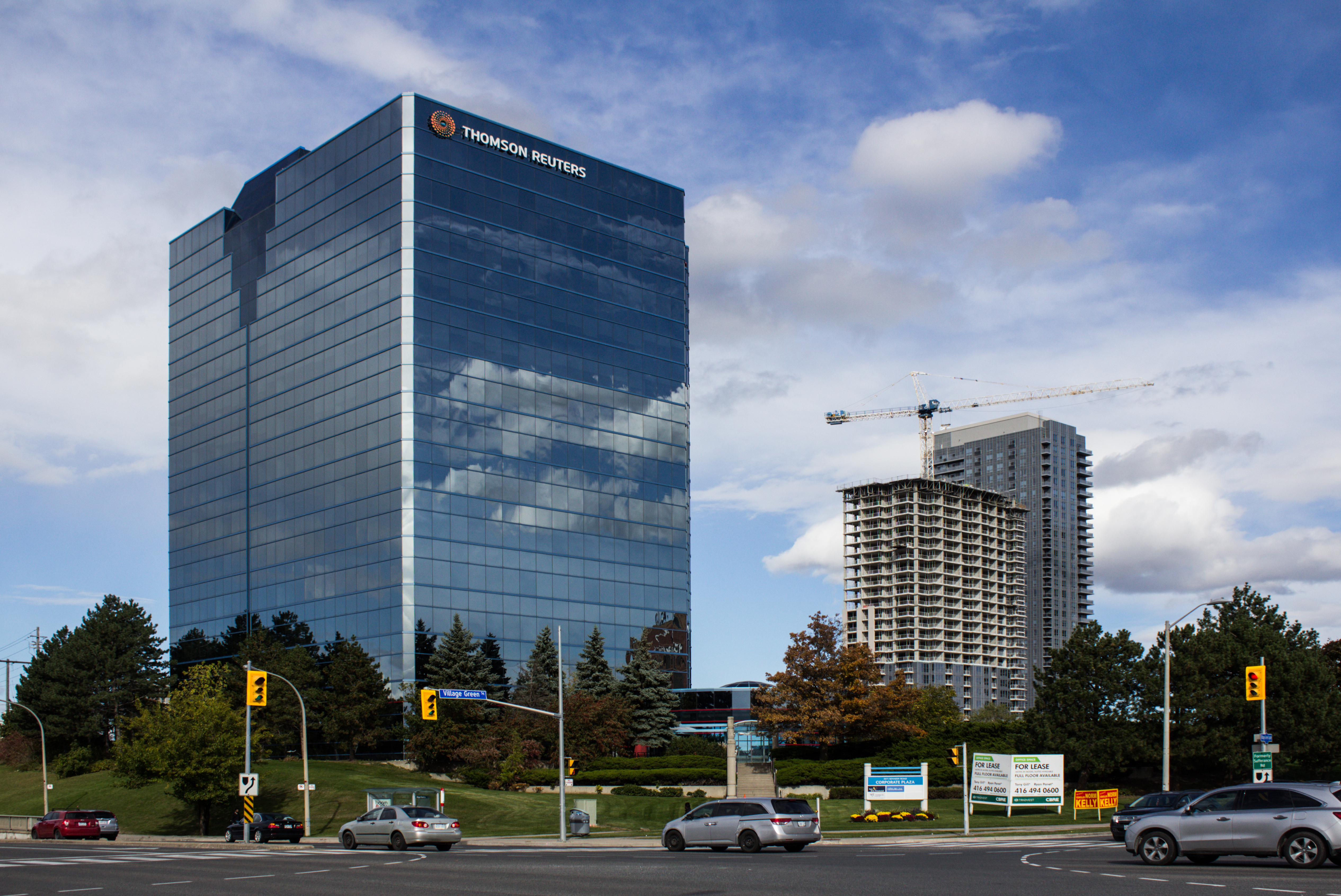 The Thomson Reuters building in Scarborough, on Kennedy Road.